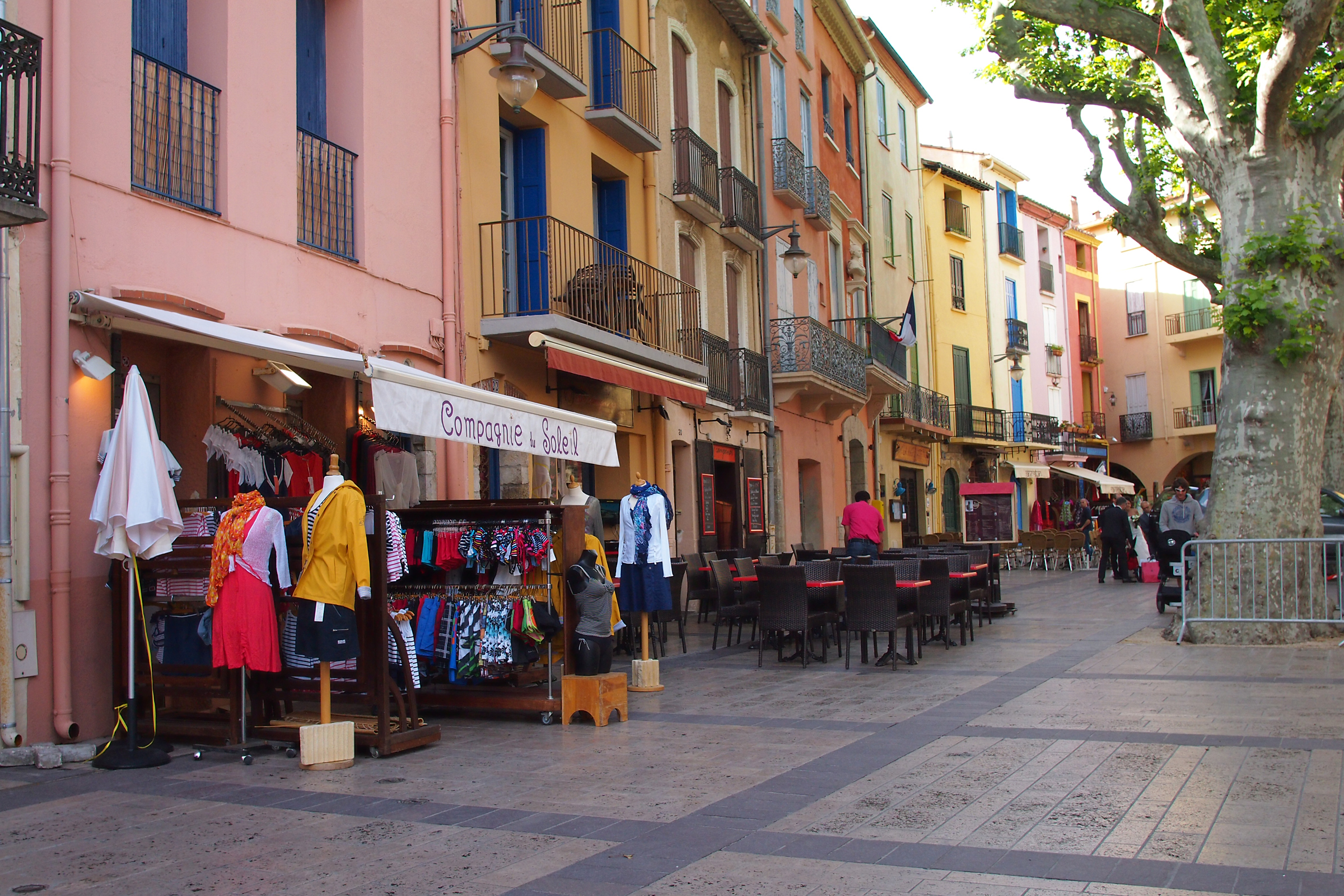 Collioure